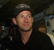 041207-N-2984R-092 Persian Gulf (Dec. 7, 2004) - NASCAR Nextel Cup driver John Andretti is interviewed by Journalist 3rd Class Alma R. Larson in the Carrier Air Traffic Control Center (CATCC) aboard the Nimitz-class aircraft carrier USS Harry S. Truman (CVN 75). Carrier Air Wing Three (CVW-3) embarked aboard Truman is providing close air support and conducting intelligence, surveillance and reconnaissance missions over Iraq. Truman’s Carrier Strike Group Ten (CSG-10) and CVW-3 are on a regularly scheduled deployment in support of the Global War on Terrorism. U.S. Navy photo by Photographer's Mate Airman Apprentice Ricardo Reyes (RELEASED)